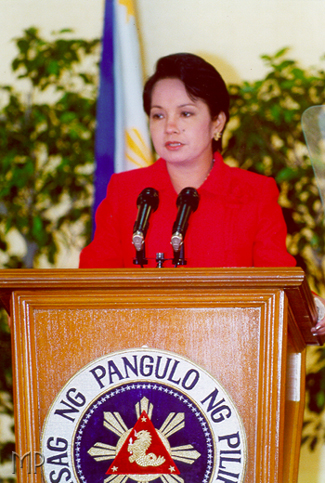 President Gloria Macapagal-Arroyo asks for prayers and she leaves today (Oct. 19) for Shanghai to attend the Ninth APEC Leaders Meeting.